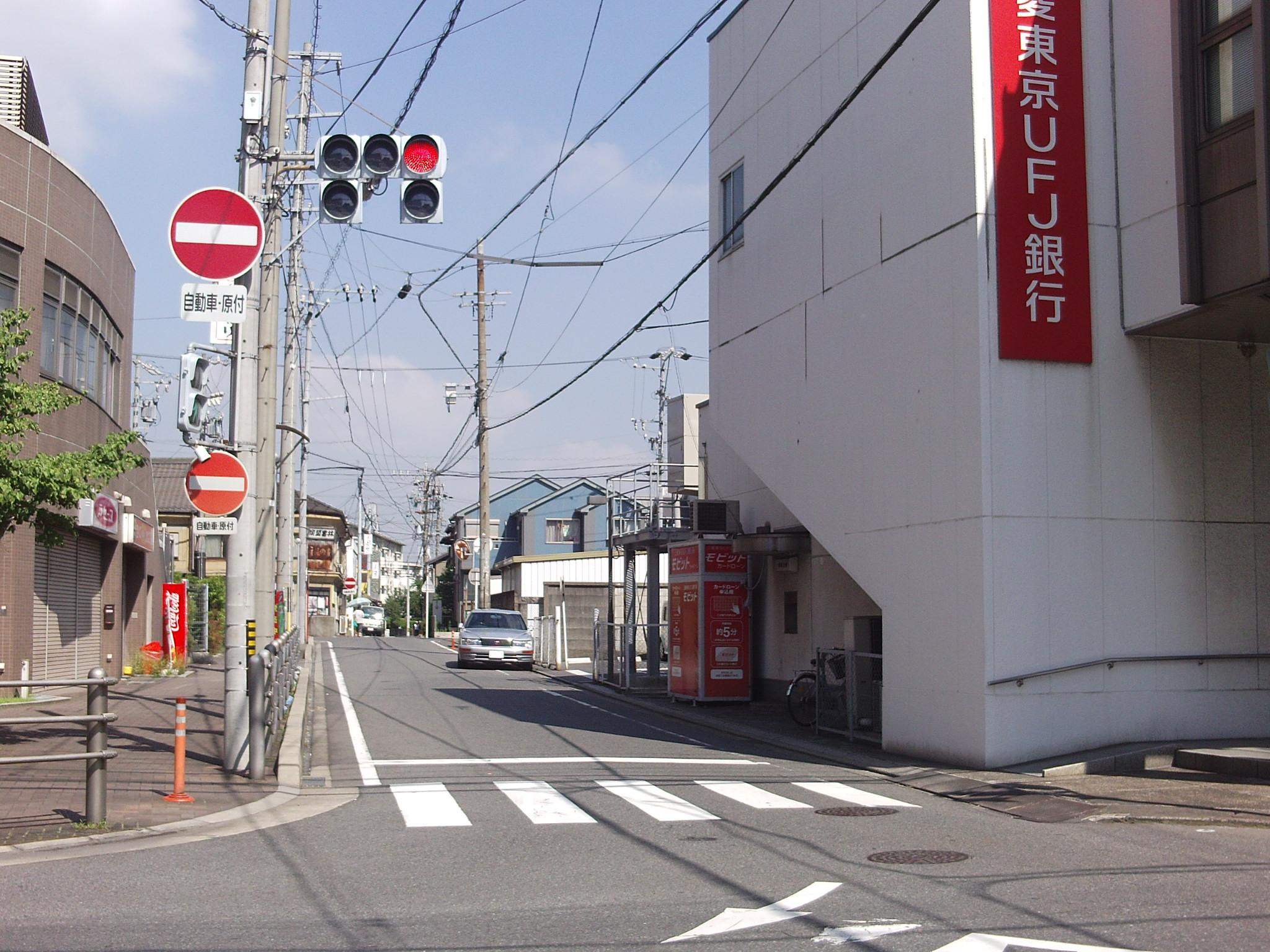 Ending point of Aichi prefectural road No.250 in Yokosukacho, Tokai, Aichi. This is the old prefectural road.